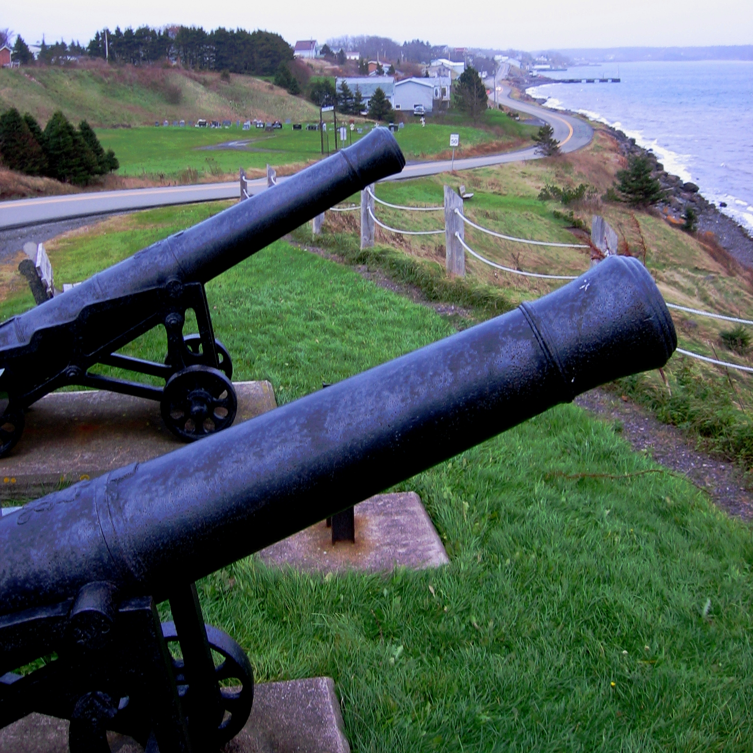 The island community of Arichat, Isle Madame, Nova Scotia as seen from Cannon Look-Off. The cannons commemorate the eighteenth century period of the community's long history